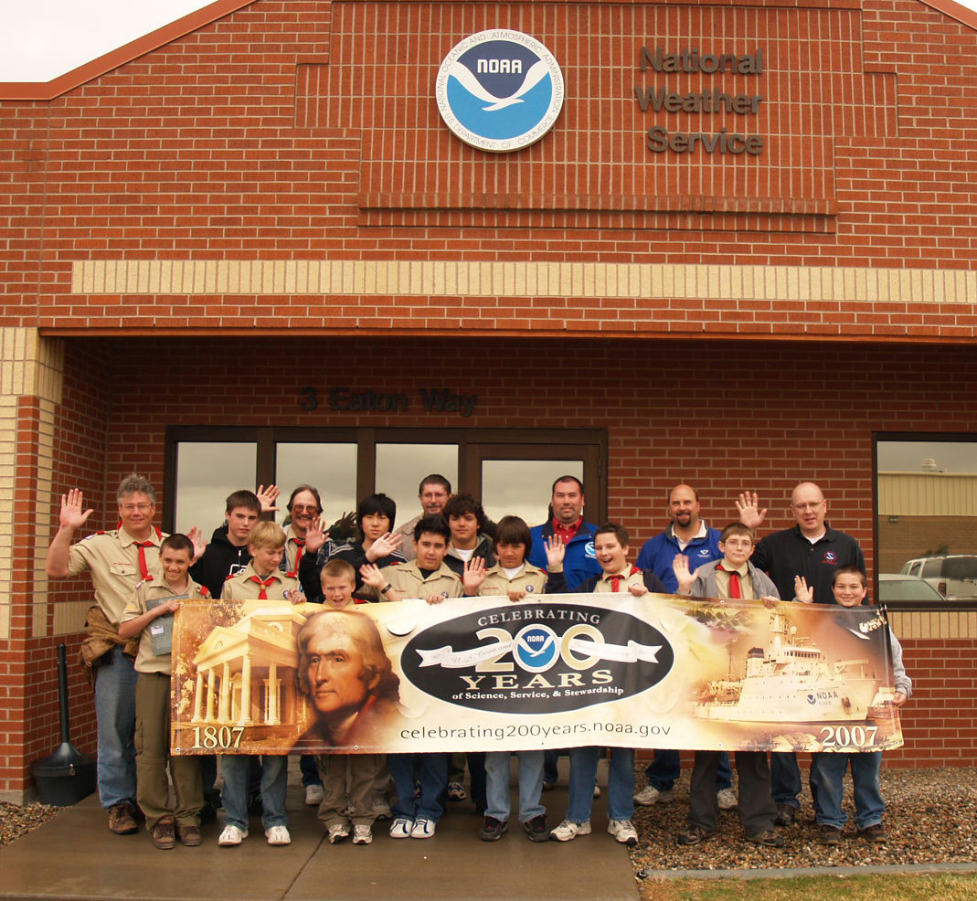 200th Celebration Greetings from the Weather Forecast Office (WFO) in Pueblo, Colorado, and Colorado Springs Boy Scout Troop 27. The scout troop toured the WFO and worked on their weather Merit Badge with help from WFO Staff, Eric Petersen, Makoto Moore, and Mike Nosko.